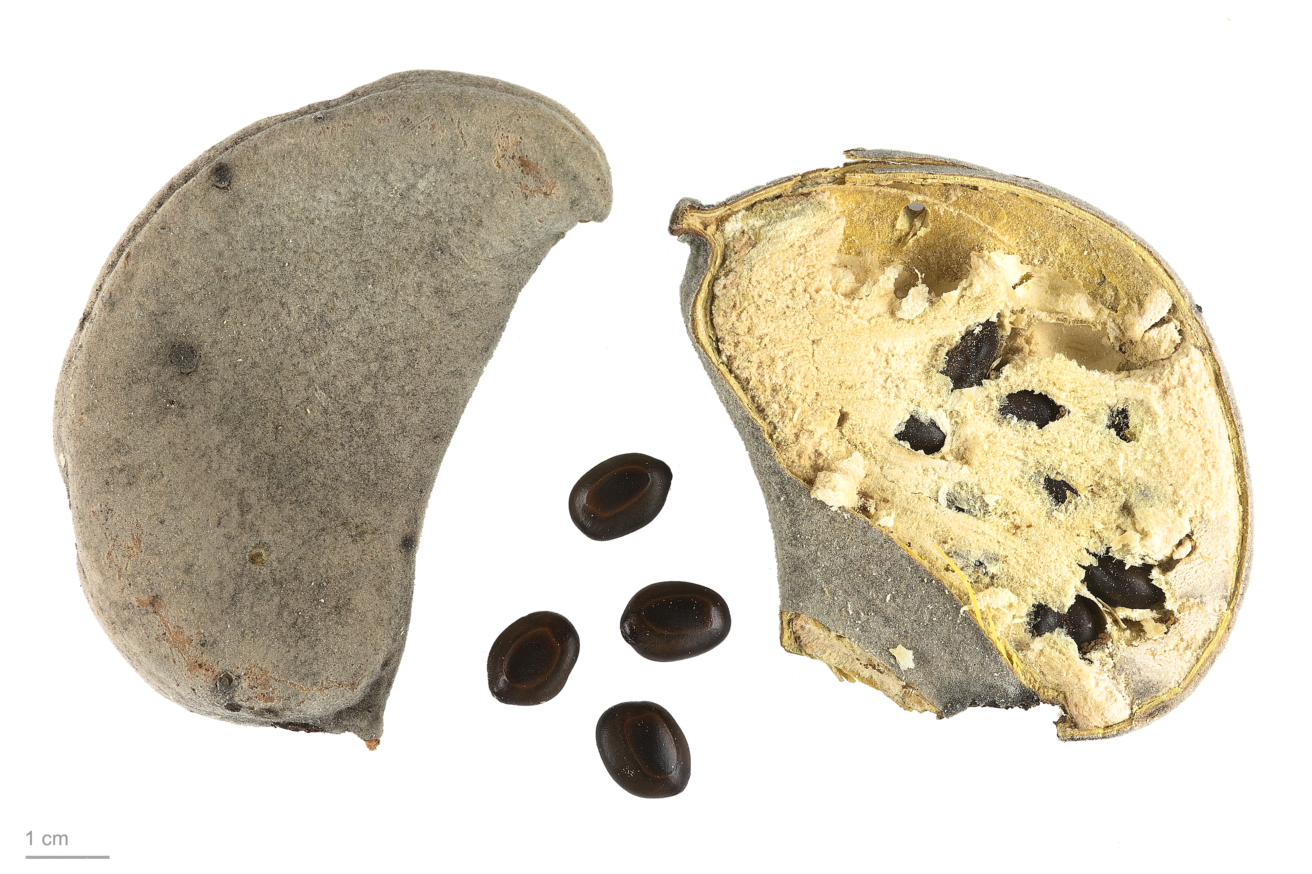 Vachellia erioloba, Camel thorn, seeds